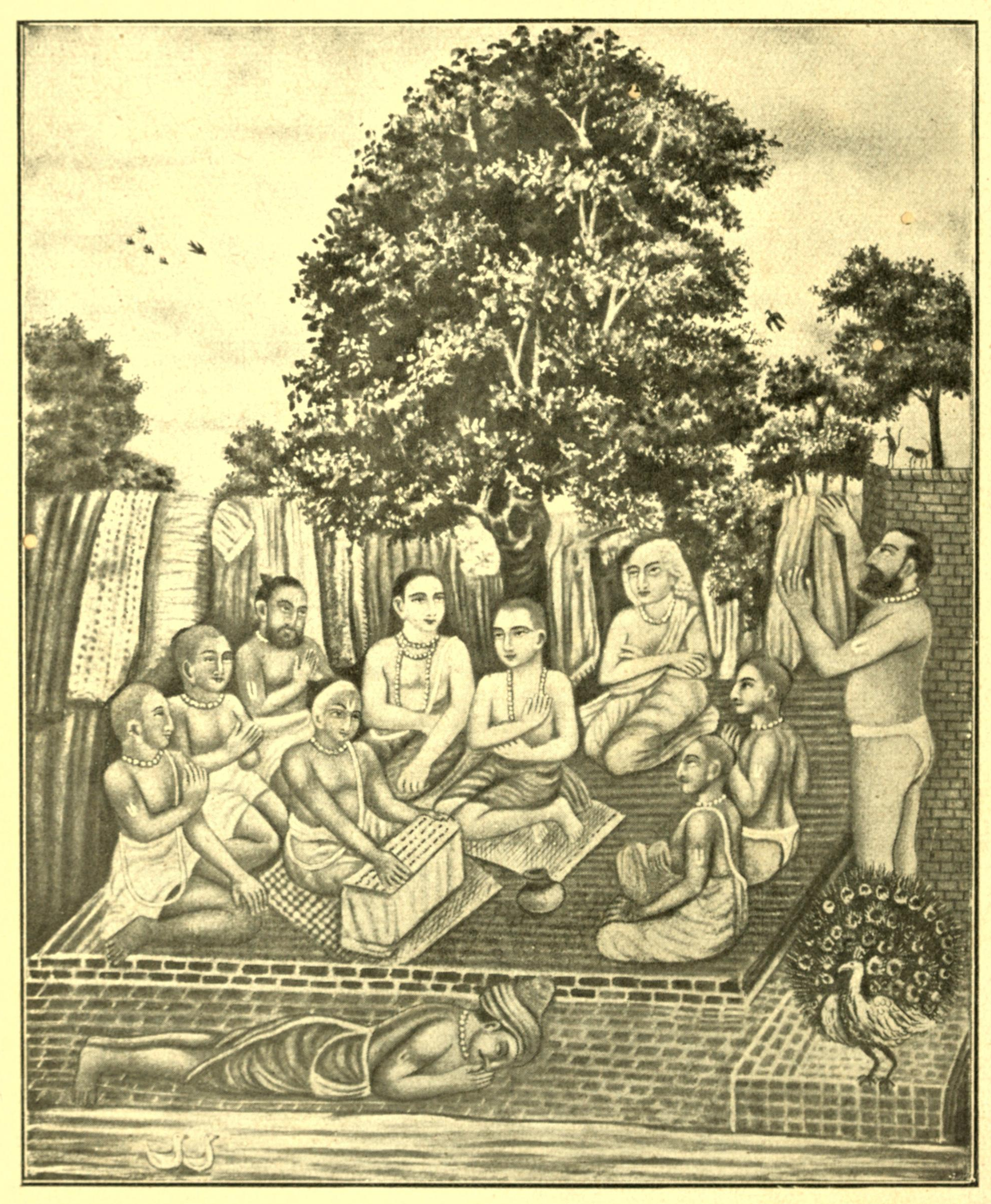 Picture of Chaitanya from Chaitanya's Life and Teachings